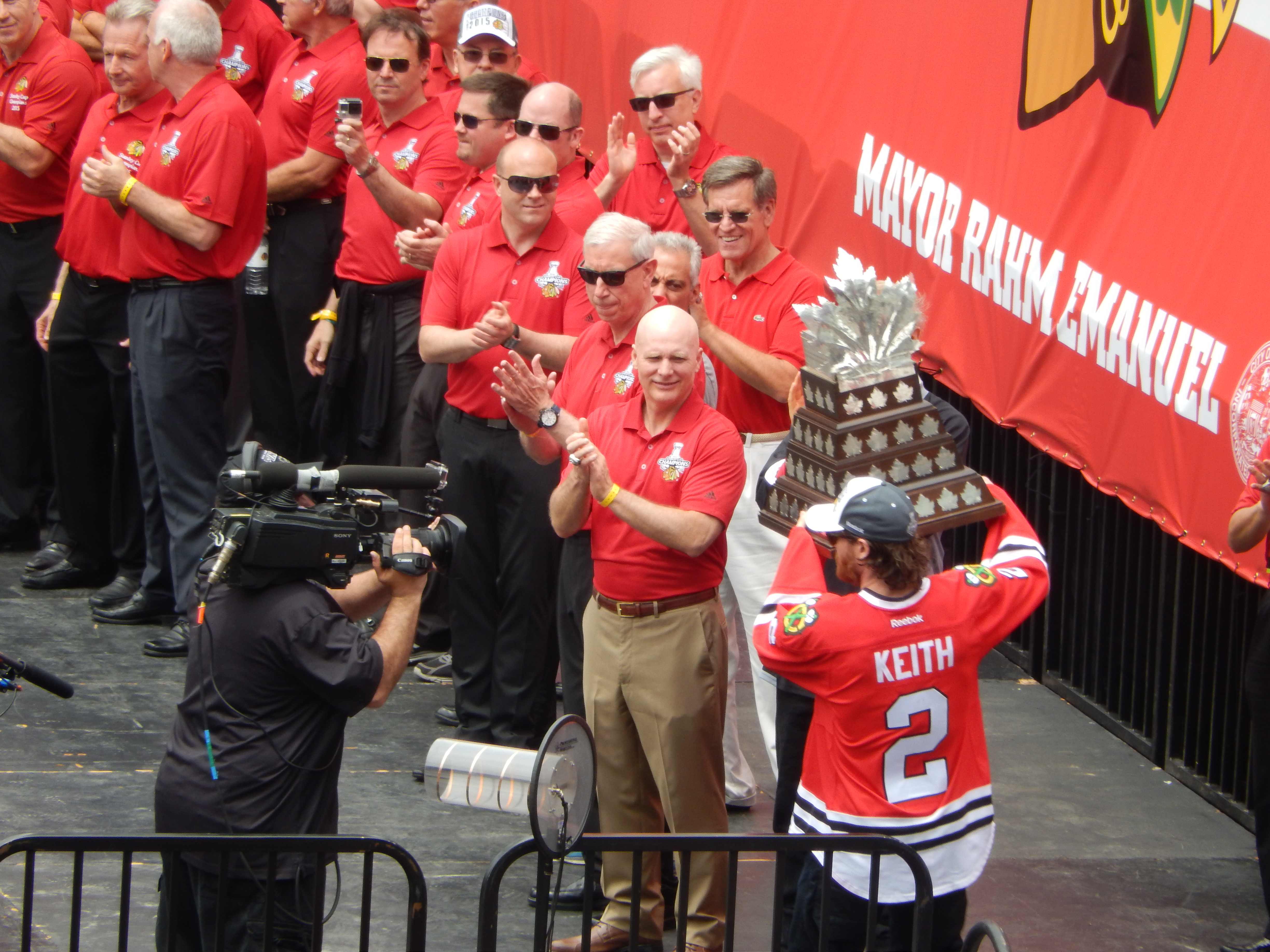 Blackhawks Defenceman Duncan Keith with the Conn Smythe trophy in 2015. The award is given to the best player of the NHL playoffs.